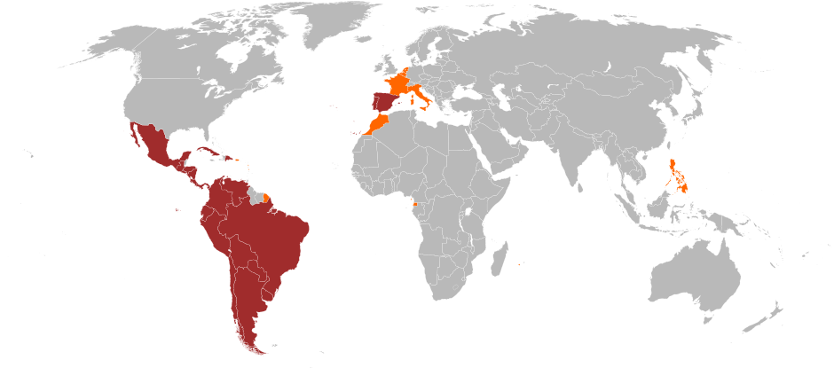 Countries participating in the Ibero-American Summit. The countries included are Andorra, Argentina, Bolivia, Brazil, Chile, Colombia, Costa Rica, Cuba, the Dominican Republic, Ecuador, El Salvador, Guatemala, Honduras, Mexico, Nicaragua, Panama, Paraguay, Peru, Portugal, Spain, Uruguay and Venezuela.